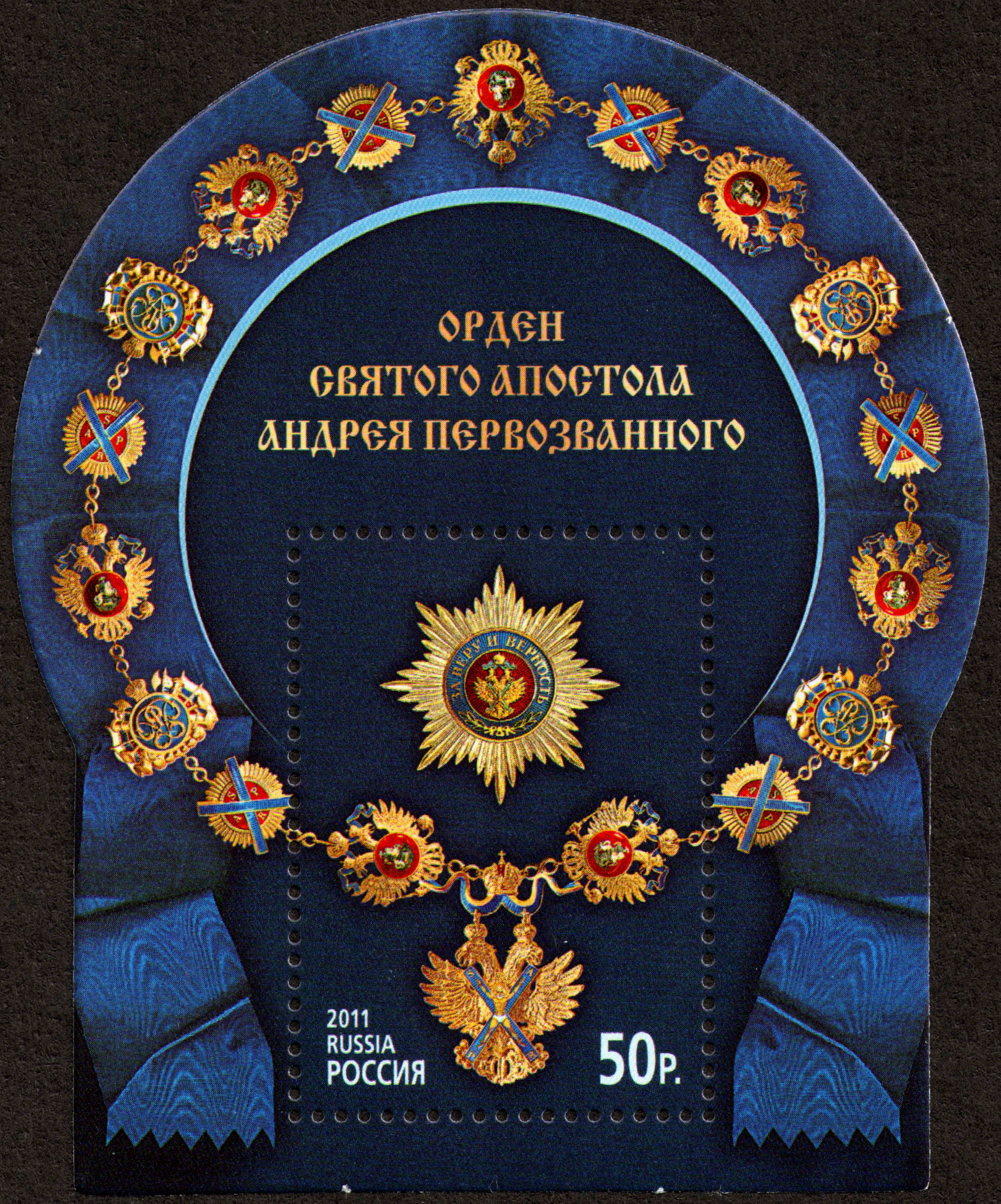 The Order of St. Andrew the First-Called, the highest civilian and military award of the Russian Federation. The souvenir sheet of Russia, 1 stamp×50.00 Rubles, 1 July 2011, PTC Marka Catalogue No 1496, Michel No 1728 (Block148). Coated paper. Offset printing. Perforation: frame 12×12½. The size of the souvenir sheet: 85×71 mm. The size of the stamp: 30×42 mm. Print run: 100,000. The insignia of the order: the badge on the chain, the star and the riband of the order.